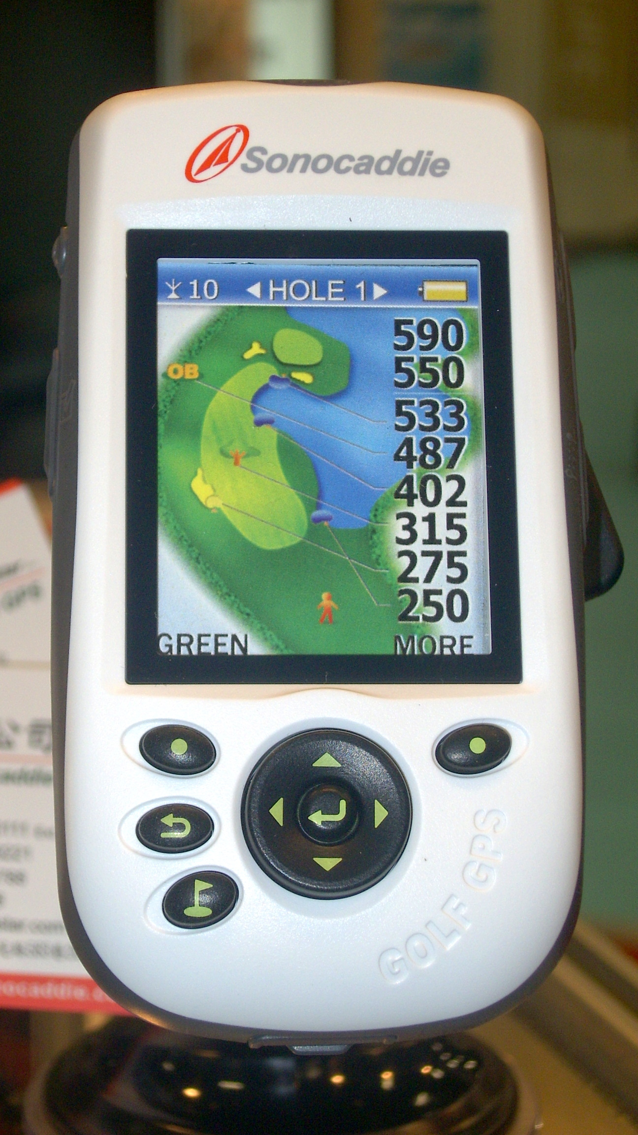 2008 Leisure Taiwan: Sonocaddie V300 Golf GPS.